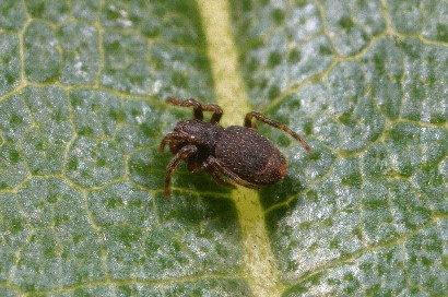 male Arachnura logio from Okinawa.